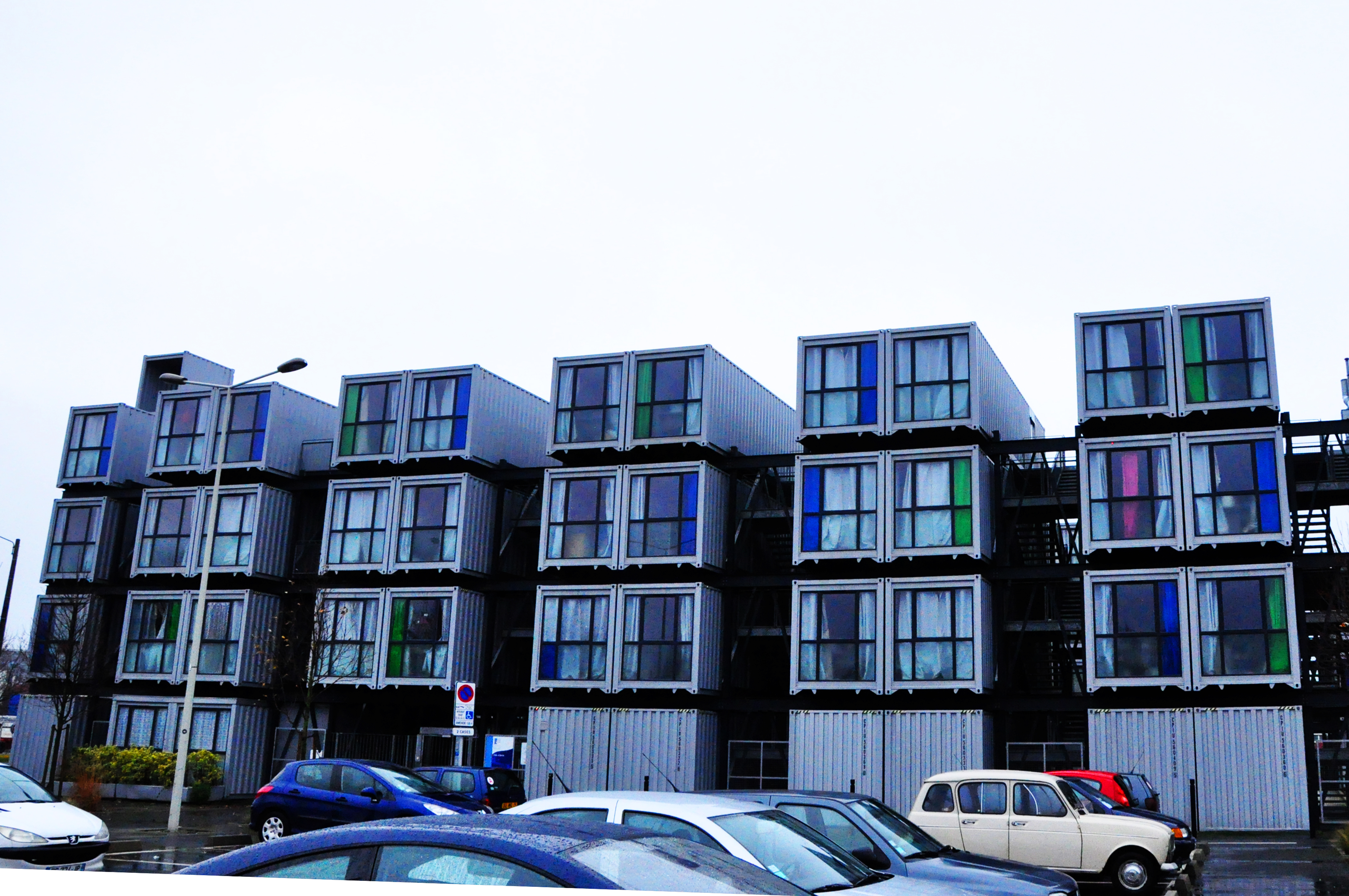 Shipping containers as apartment buildings for students, Le Havre (France, Normandy)